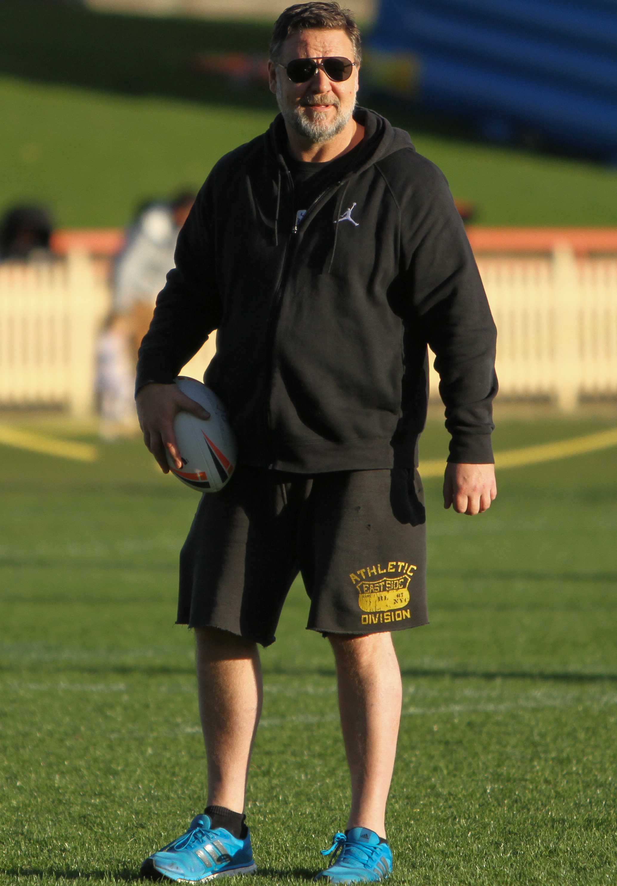 Russell Crowe